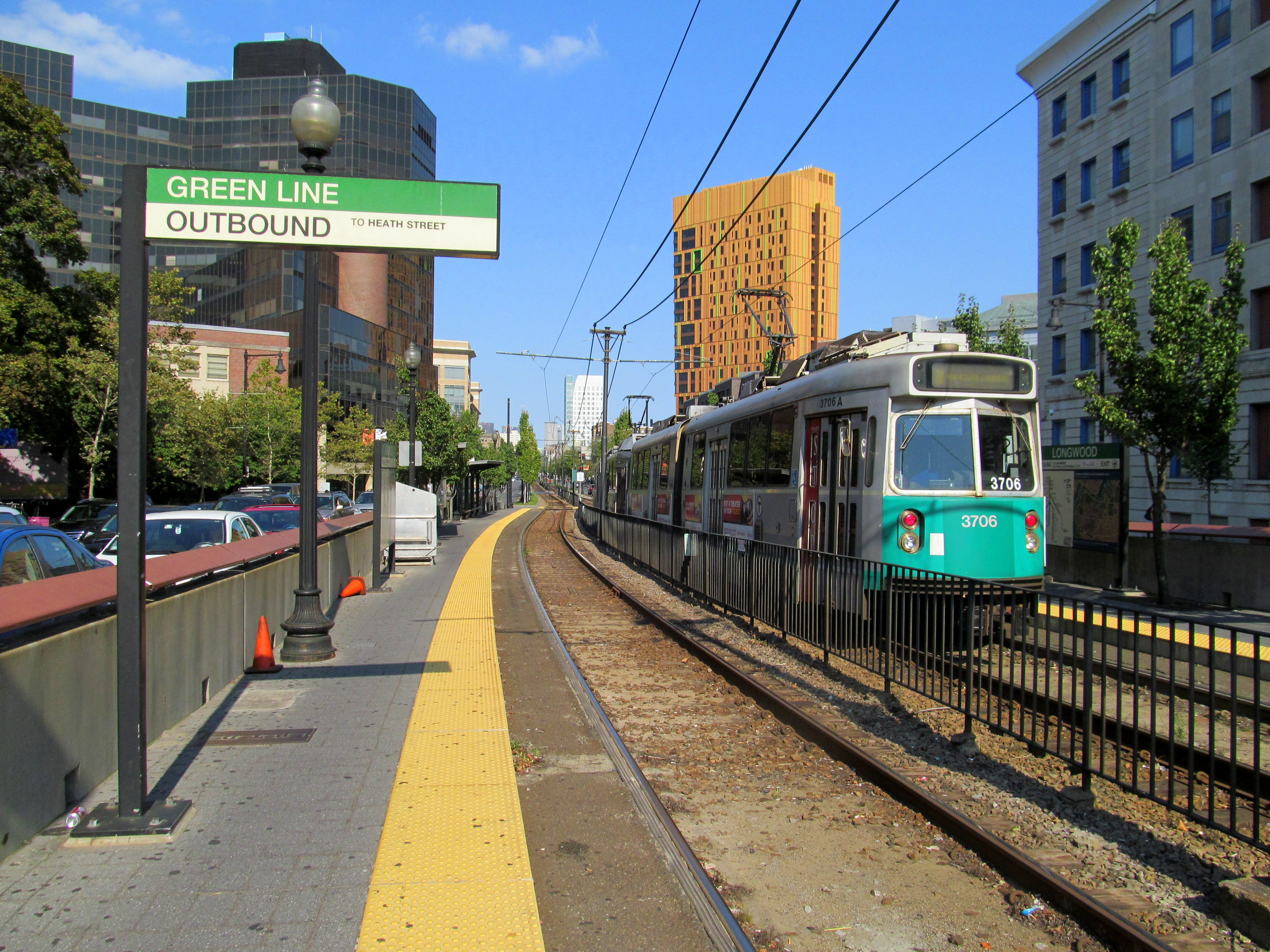 Inbound train at Longwood Medical Area station in September 2012